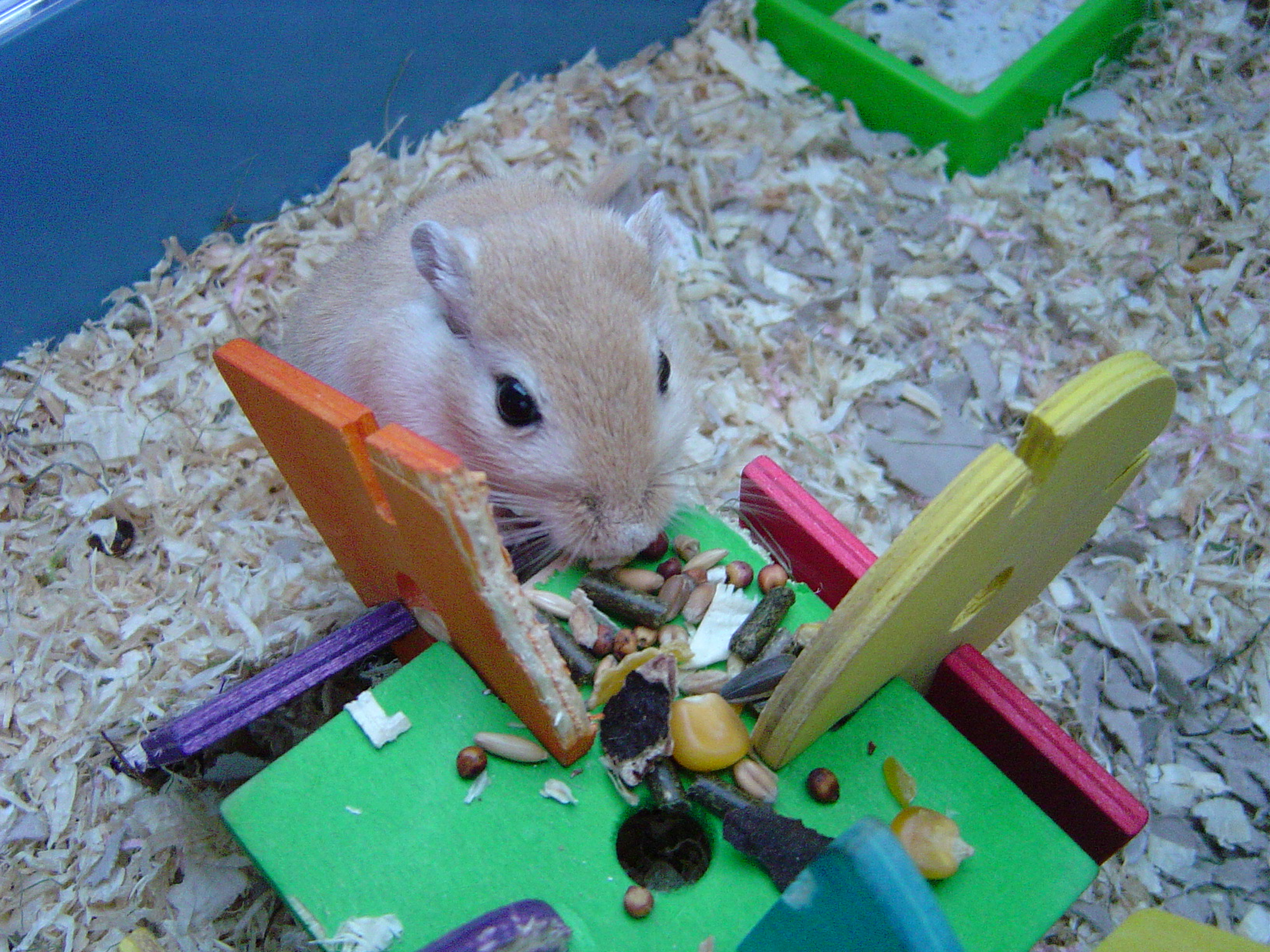 My Gerbil Ordos, seconds before he starts eating the food in front of him.